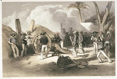 The Indian Navy, formerly called the Bombay Marine, was the naval arm of the East India Company. During the Indian Mutiny (1857-59) the heavy guns of the Naval Brigade played an important part in the relief of British forces beseiged at Lucknow and Delhi. The Indian Navy was abolished in 1863 after the demise of Company rule. Though the source website says its copyrighted, it is not correct since it was created in 1857. See tag below.